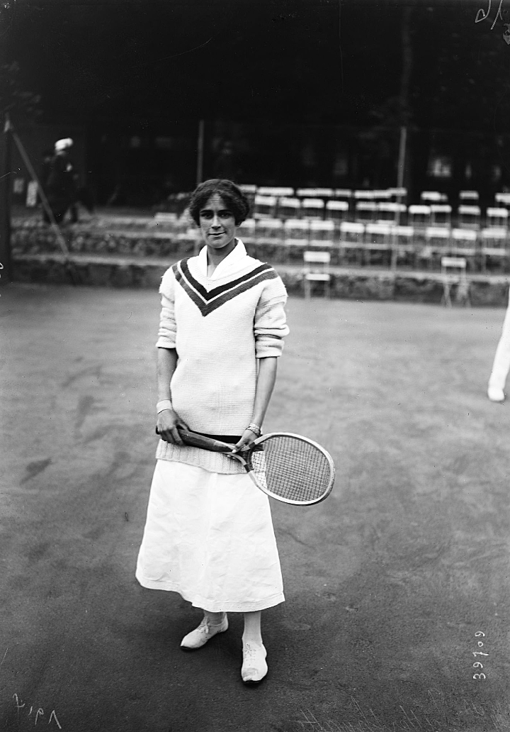 English tennis player Phyllis Satterthwaite at the 1914 World Hard Court Championships in Paris.